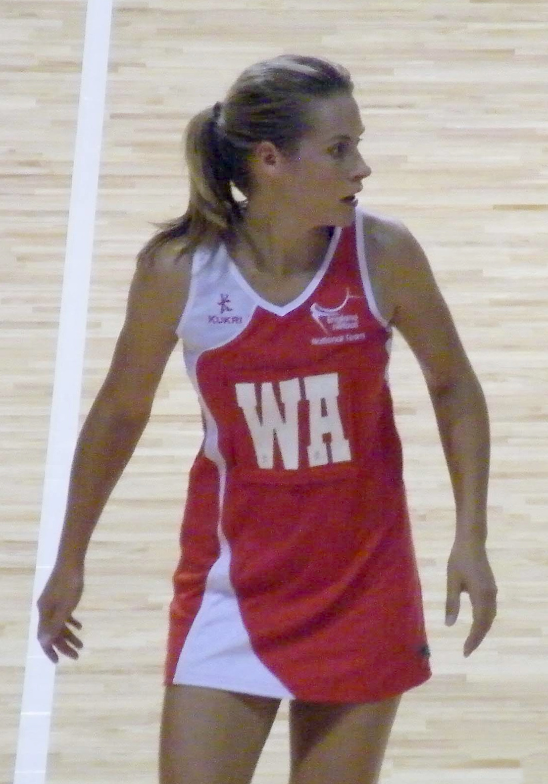 Australia v England Netball test - Adelaide october 2008